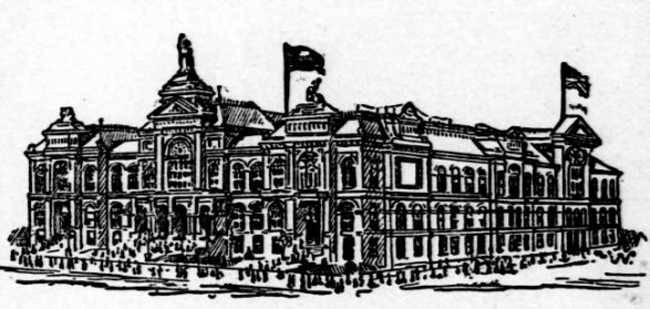 St. Louis Exposition and Music Hall, from 1888 newspaper article.